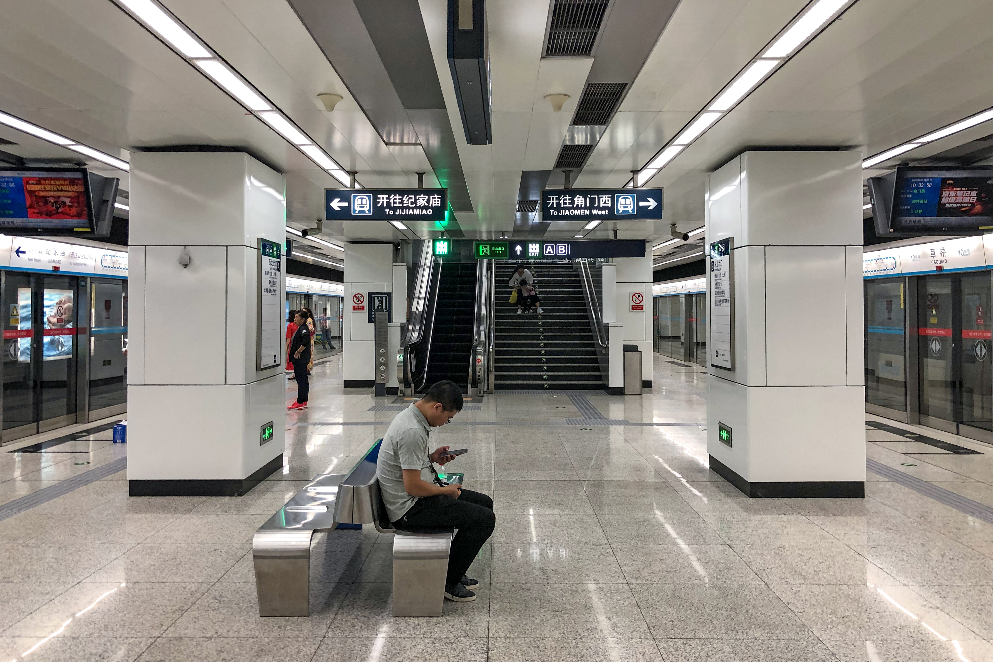 The Daxing Airport Express station may be side platform according to the new layout map.